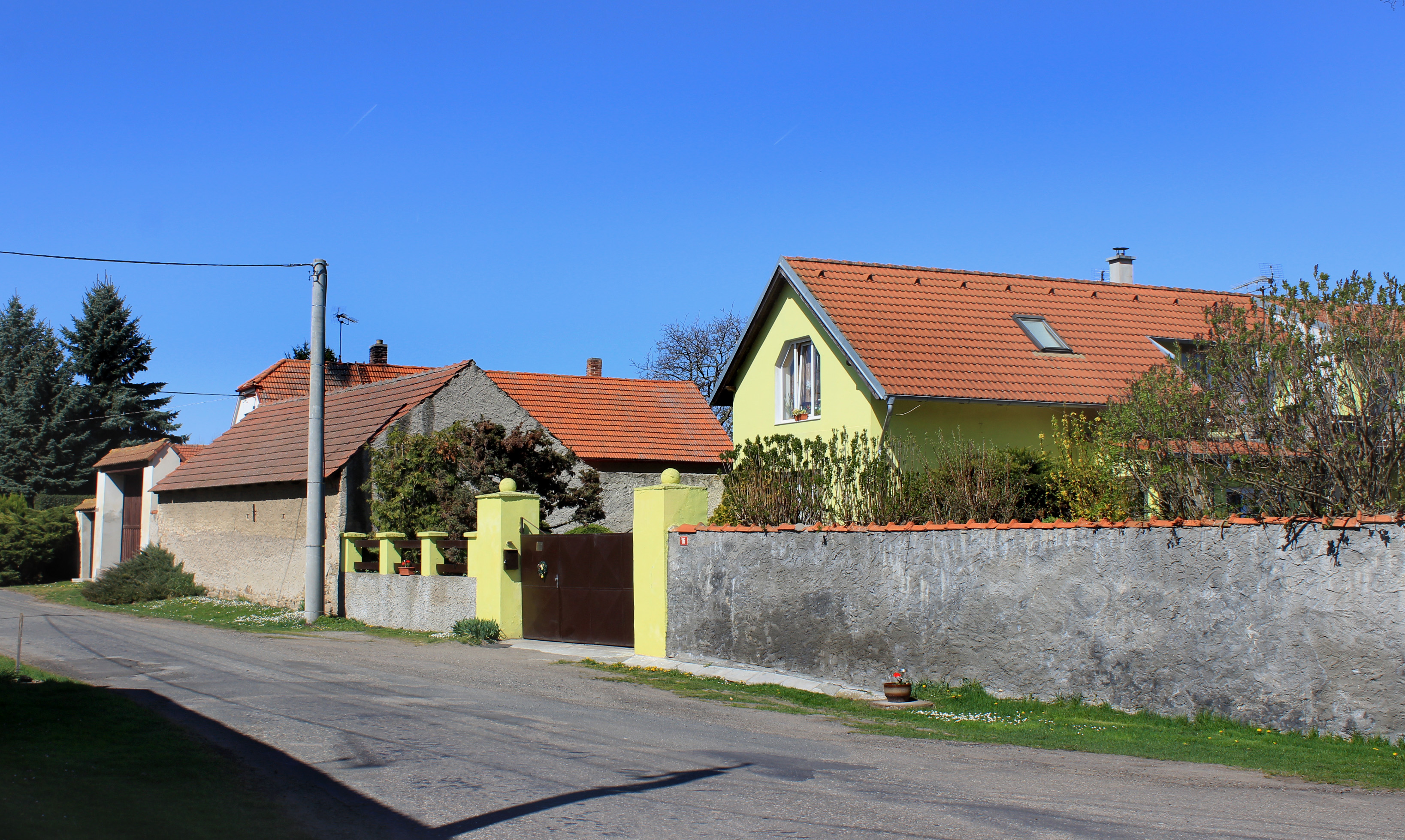 Middle part of Krychnov village, Czech Republic.